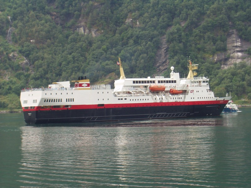 Description: MS Narvik im Geirangerfjord Capture date: 2005-08-20 Photographer: sgm